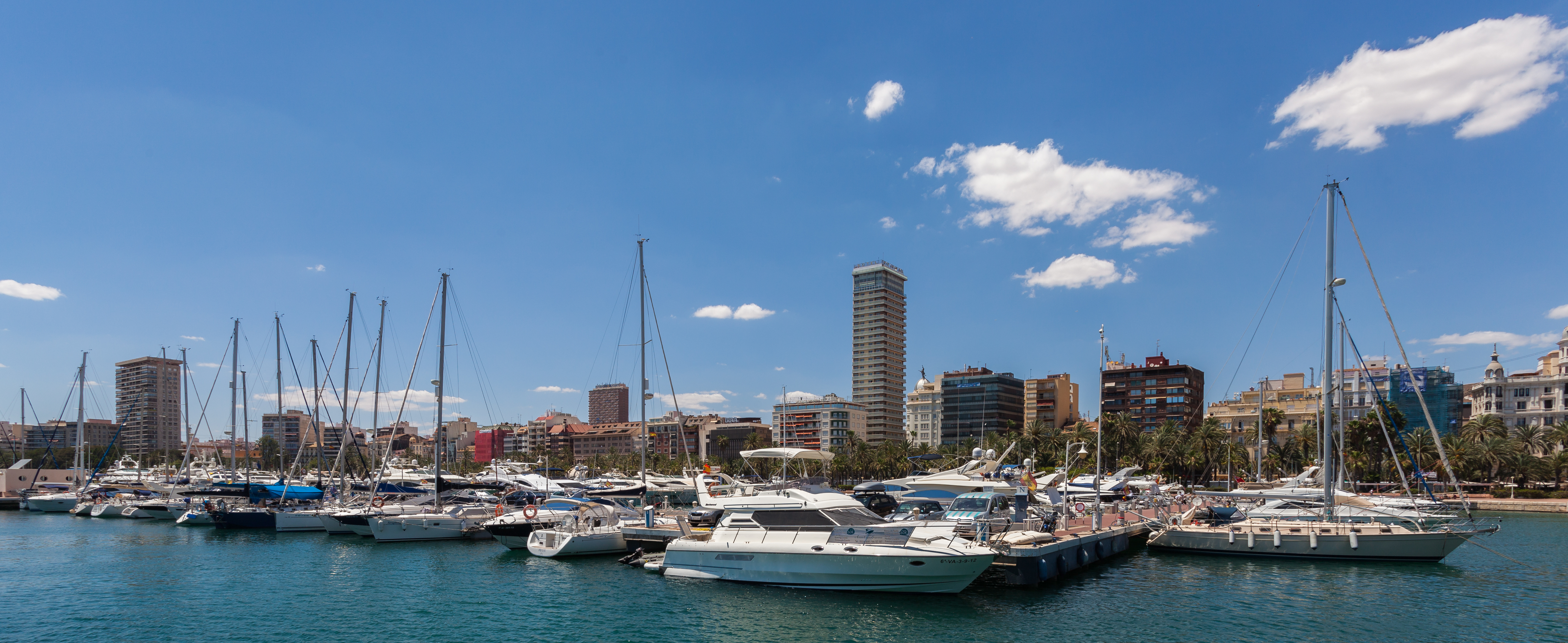 Port of Alicante, Spain